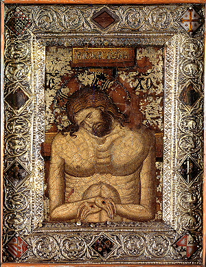 Mosaic Icon with the Akra Tapeinosis (Utmost Humiliation), or Man of Sorrows. Mosaic icon, Byzantine, late 13th–early 14th century; icon of Saint Catherine (reverse), late 13th–early 14th century; case, late 14th–17th century1. Mosaic icon, various colored stones, silver, and gold on wood; case, wood, metal, paper identification and silk wrappings for the relics; icon 13 x 19 cm (5 1/8 x 7 1/2 in.) without frame, 23 x 28 cm (9 x 11 in.) with silver frame; case 98.7 x 97.1 cm (38 7/8 x 38 1/4 in.) open, 98.7 x 62.4 cm (38 7/8 x 24 5/8 in.) closed. Basilica di Santa Croce in Gerusalemme, Rome (89).